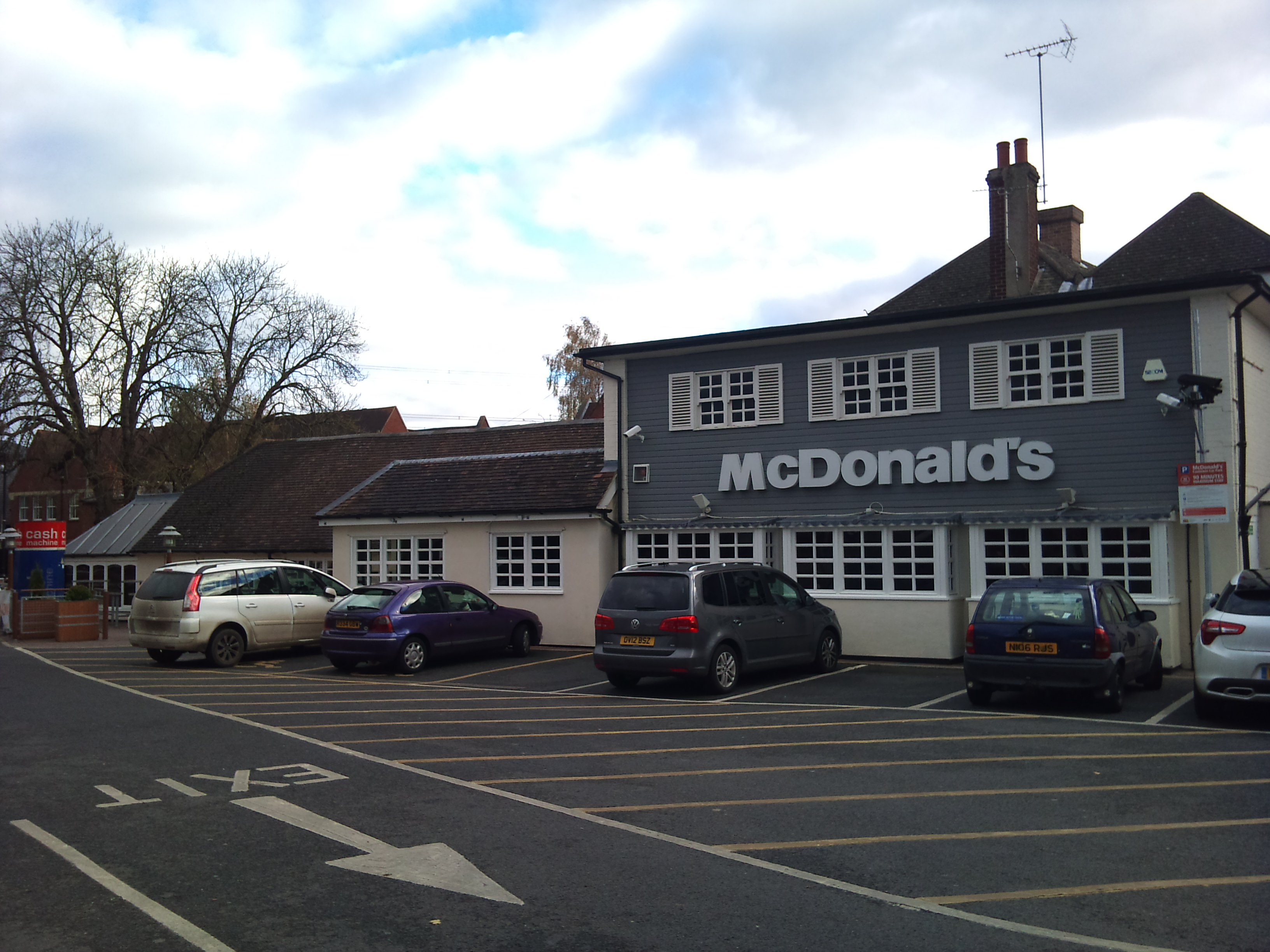 Part of the McDonald's restaurant at Botley, Vale of White Horse, Oxfordshire. Formerly the Carpenters Arms pub.